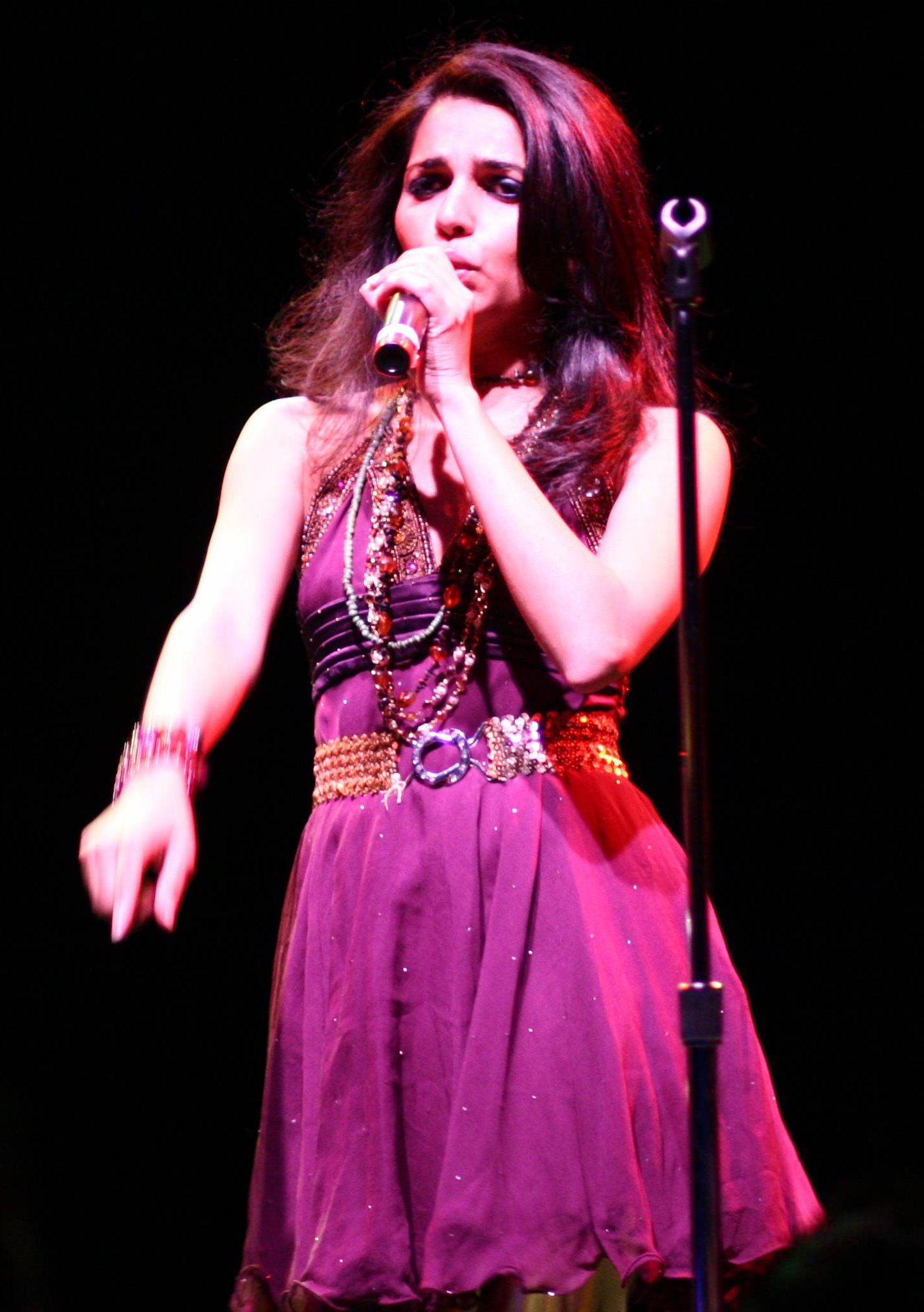 Pakistani American singer-songwriter Nadia Ali performing at Avalon in Boston.